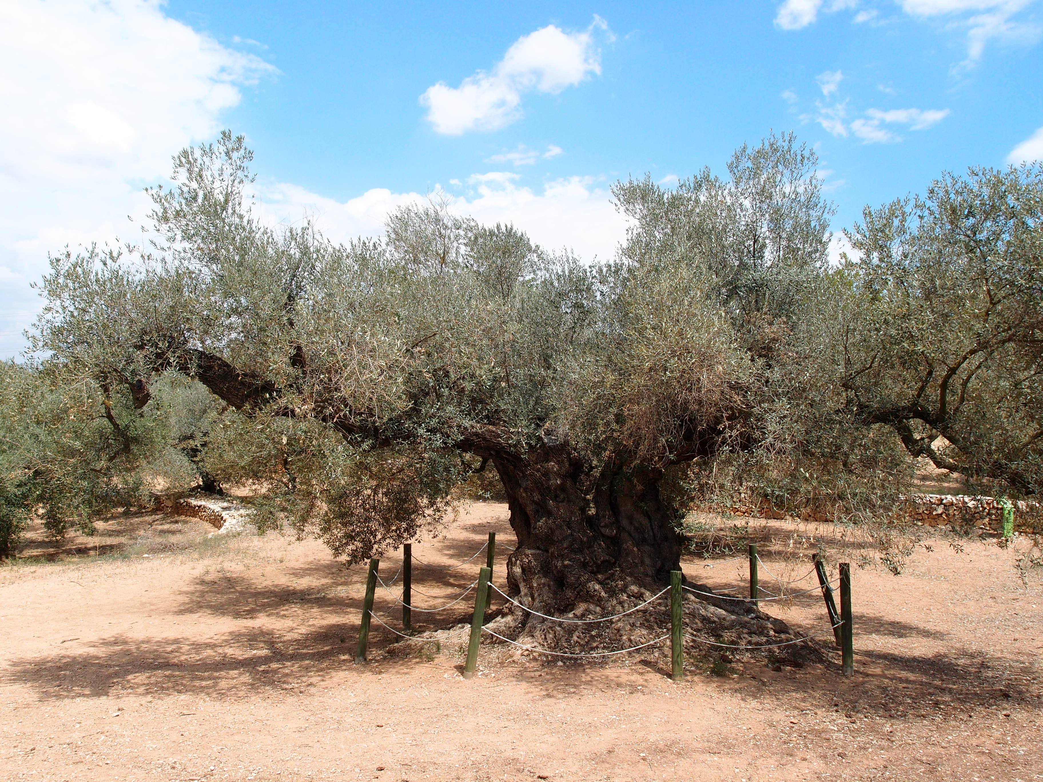 Mehr als 1700-Jahre alter lebender Olivenbaum "La Farga de l'Arión" in Ulldecona (Spanien)